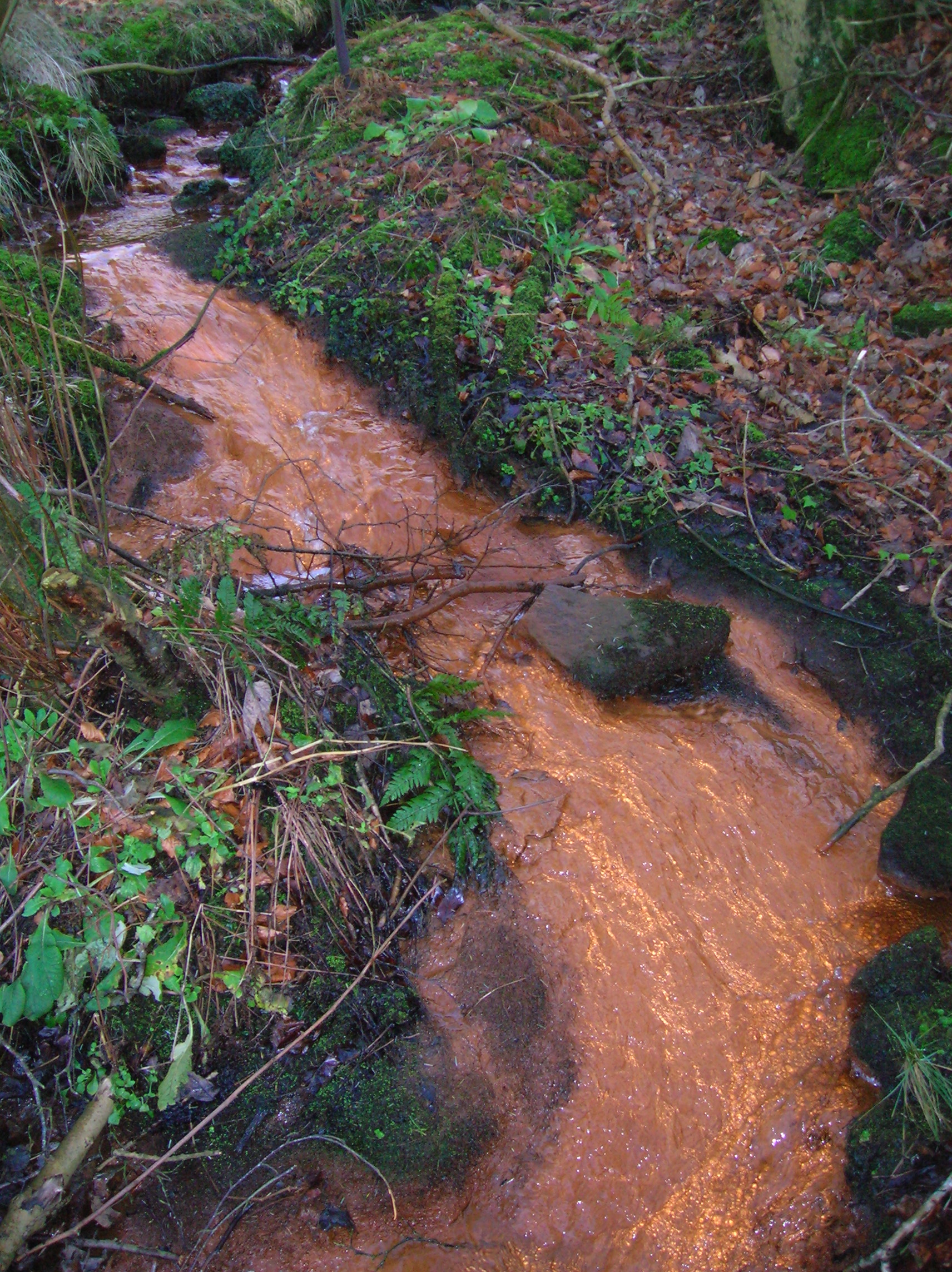 Chemosynthetic Iron bacteria in a burn, Ayrshire, Scotland.